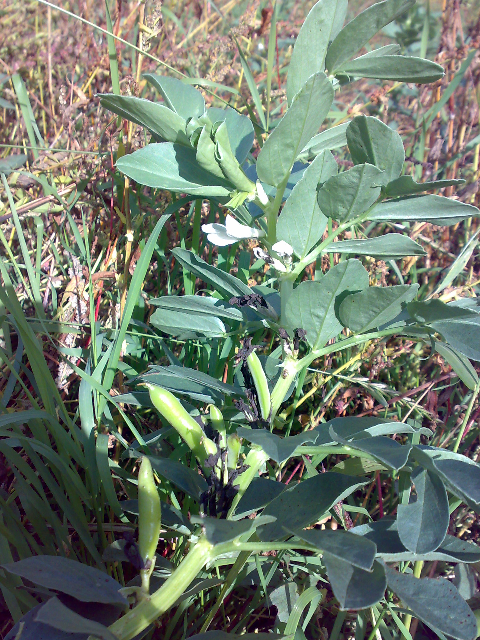 Vicia faba grown at Bogstad manor, Oslo, Norway